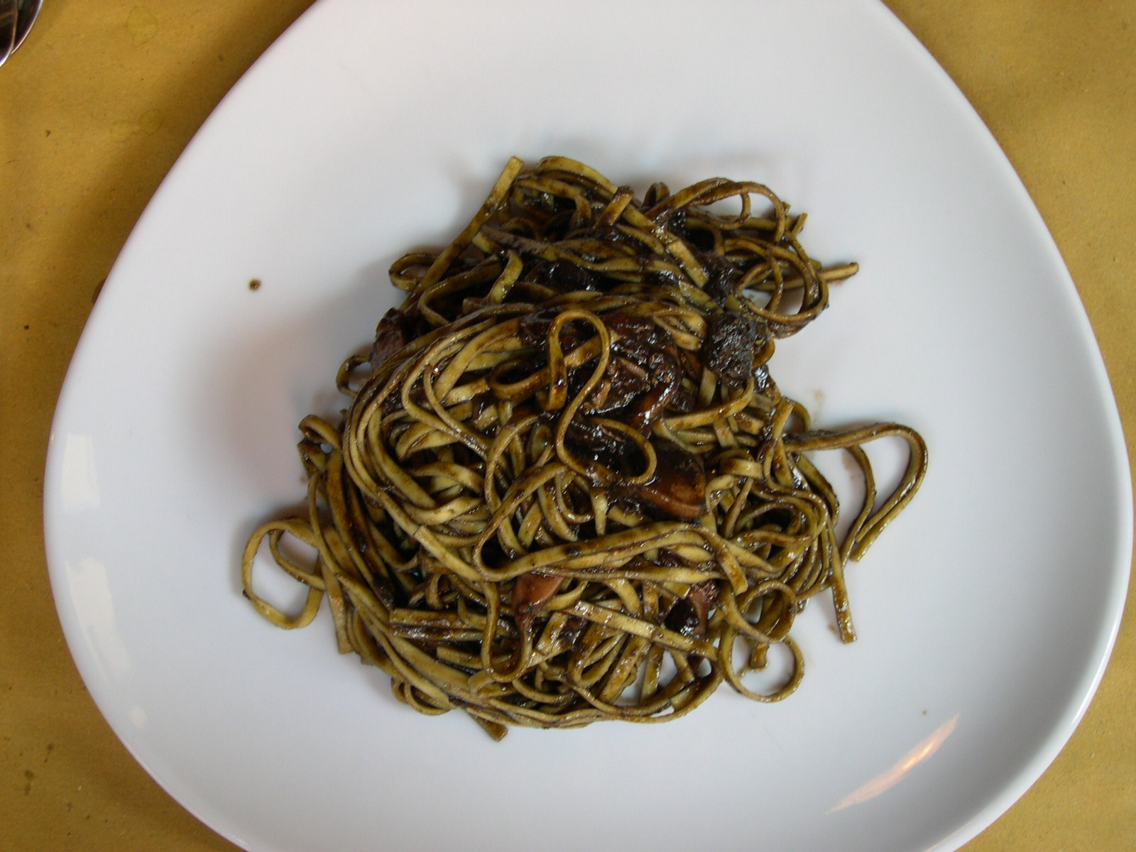 Linguine with cuttlefish and cuttlefish ink sauce, served at an osteria in Venice. Photo taken Feb 2008